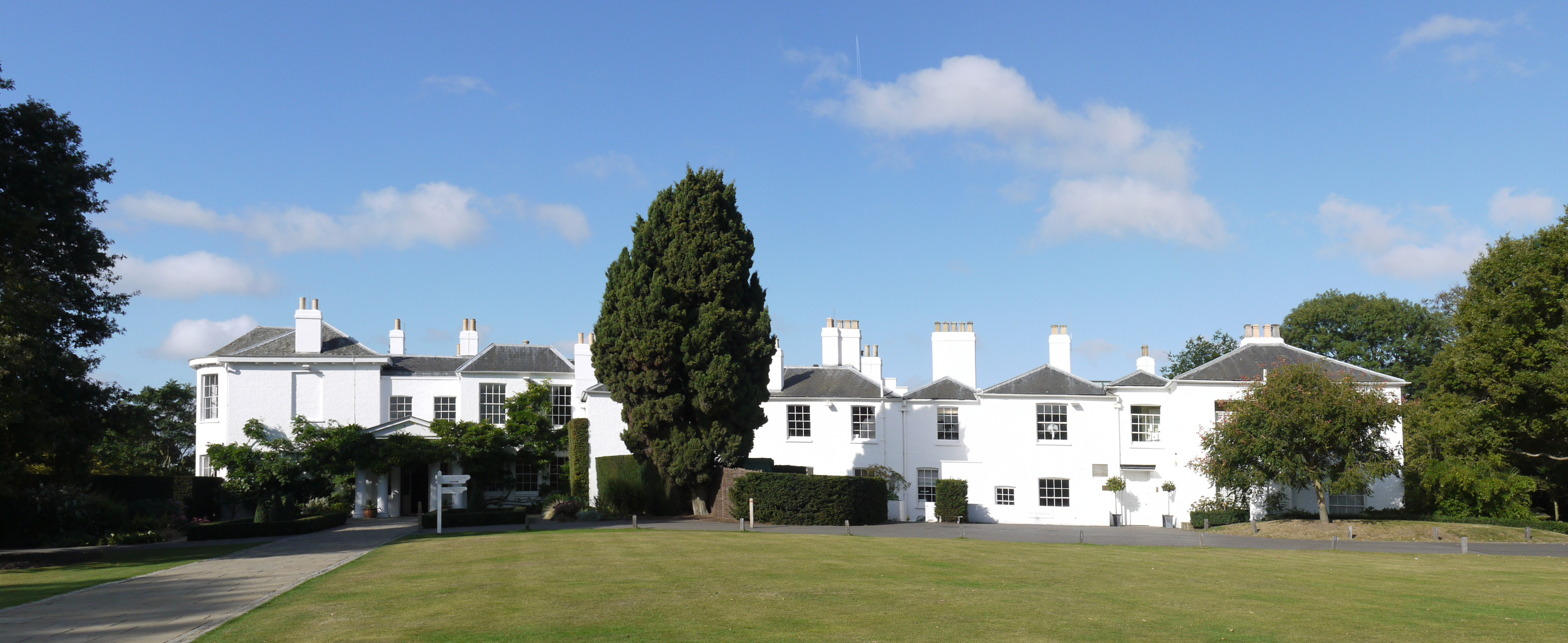 Pembroke Lodge, Richmond Park, London. This Georgian mansion now houses a cafe and restaurant.